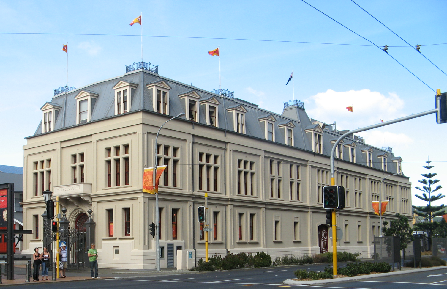 Wellington Harbour Board Head Office and Bond Store, New Zealand. Taken by Lanma726. New Zealand Historic Places Trust Category I; register number 234.